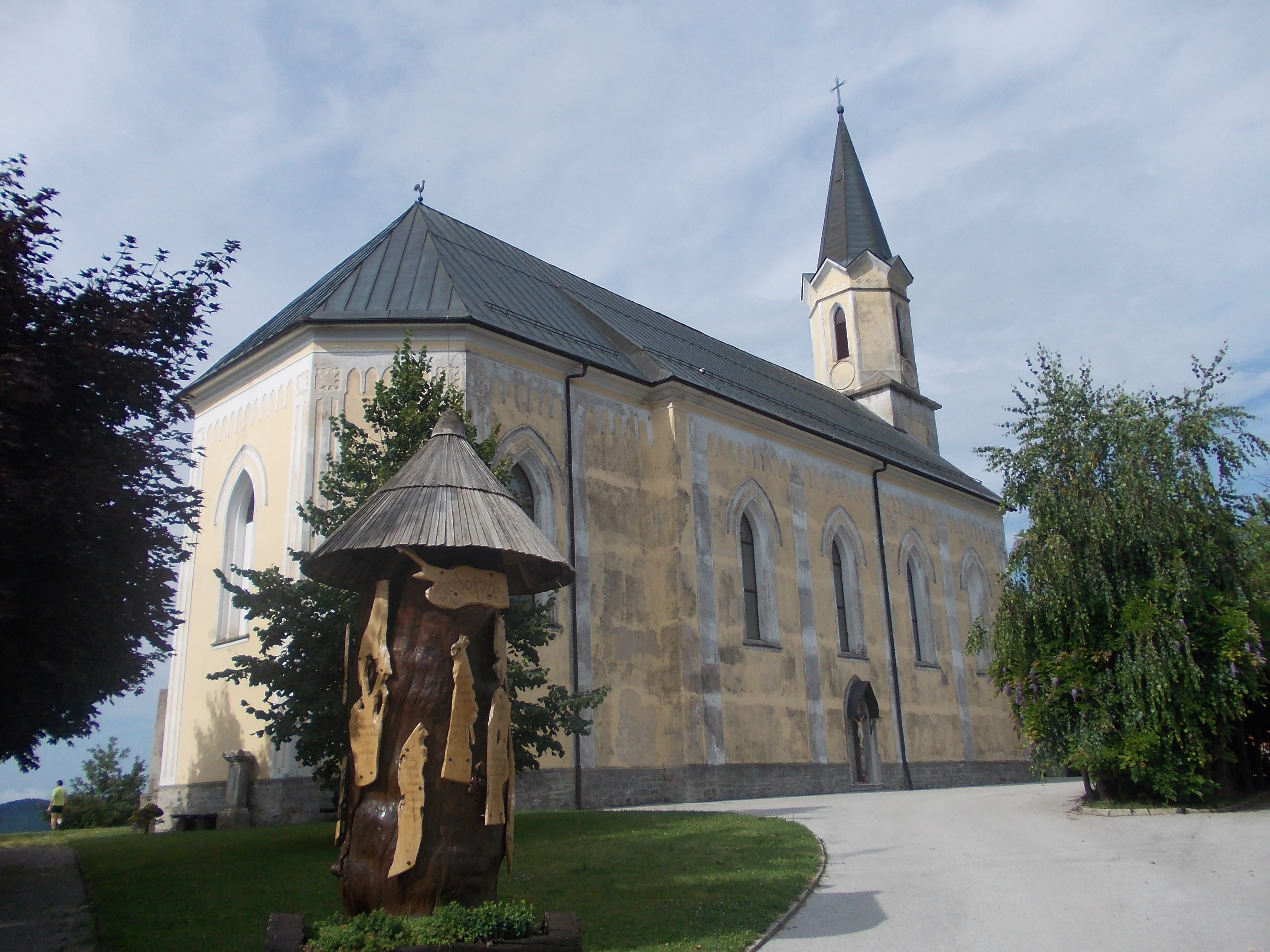 St. John the Baptist's Parish Church (Razbor)